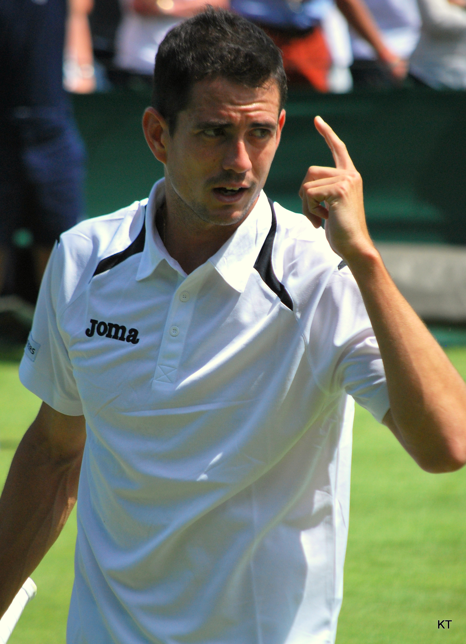 Day 2 of Wimbledon 2012.